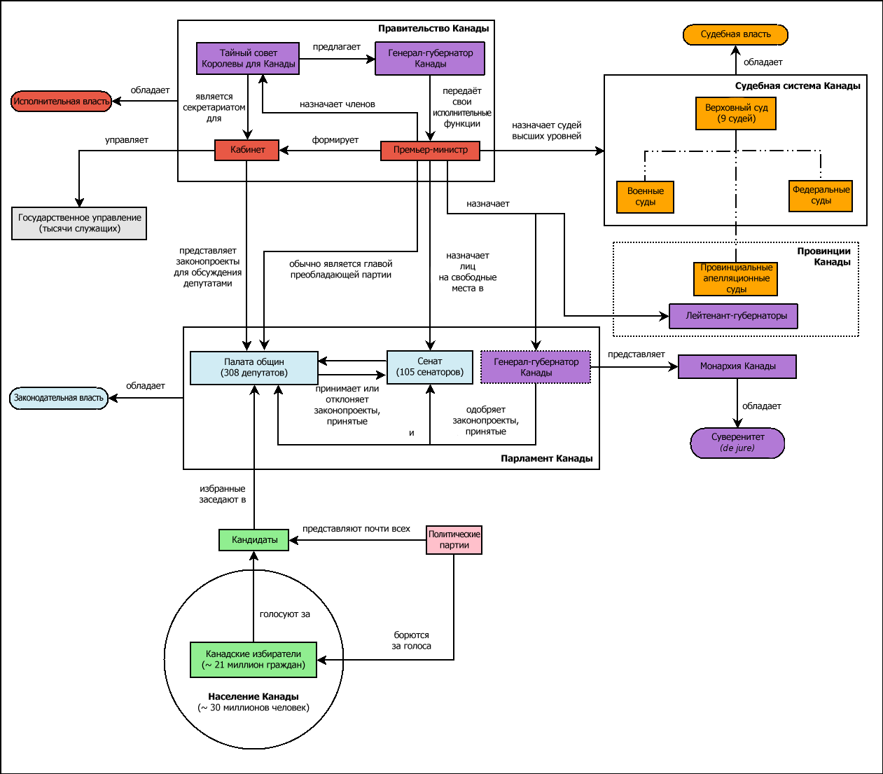 Translated from file